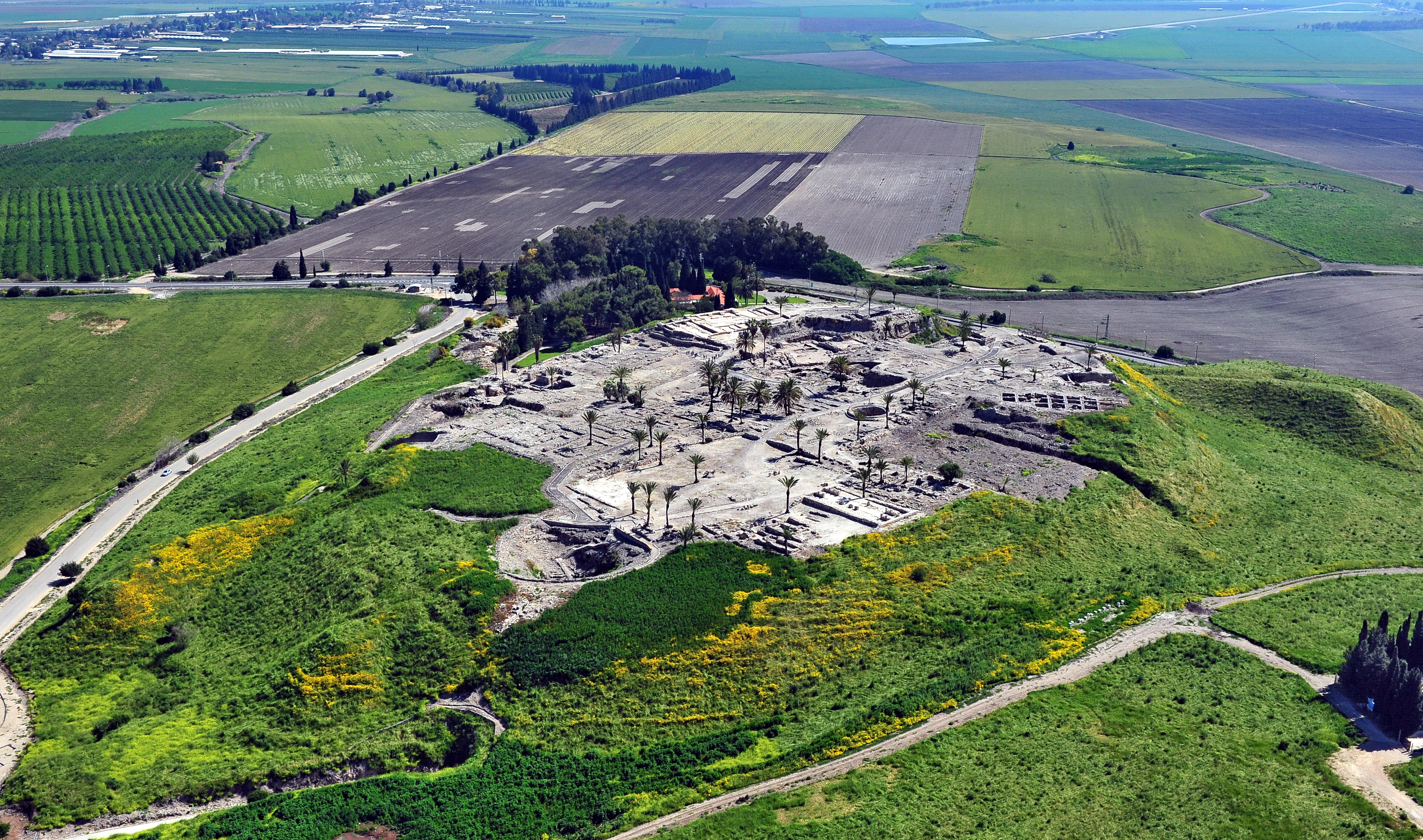 Aerial view of Tel Megiddo, northern Israel.